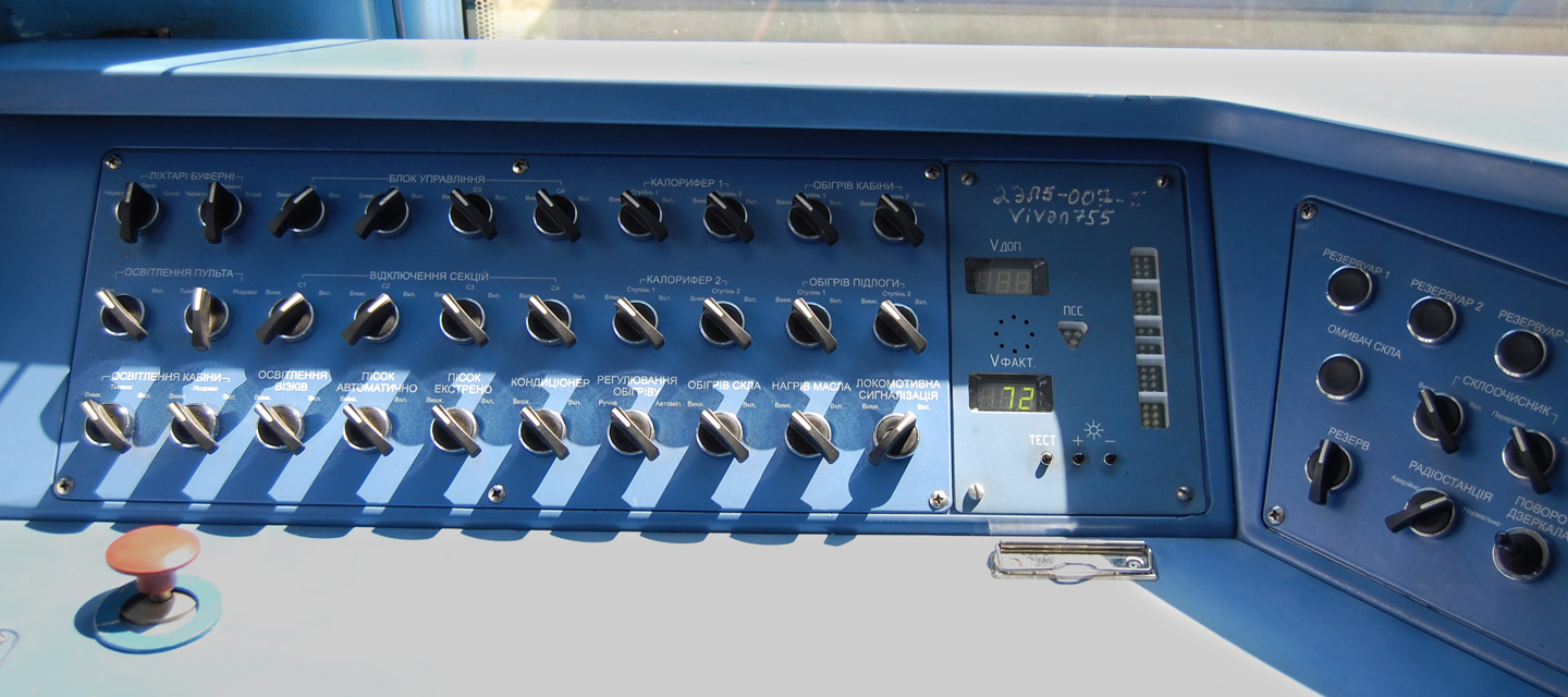 Left panel in cabin of electric locomotive 2EL5, Ukraine